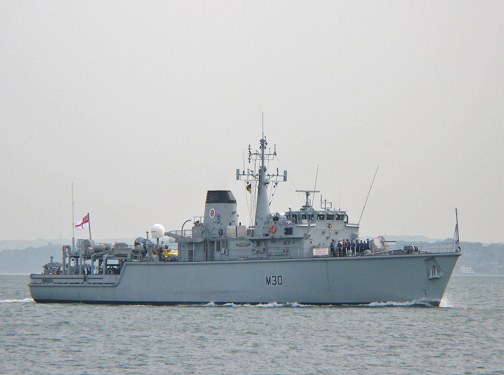 HMS Ledbury (M30) at Portsmouth on the 4th June 2007 as photographed by Brian.Burnell.